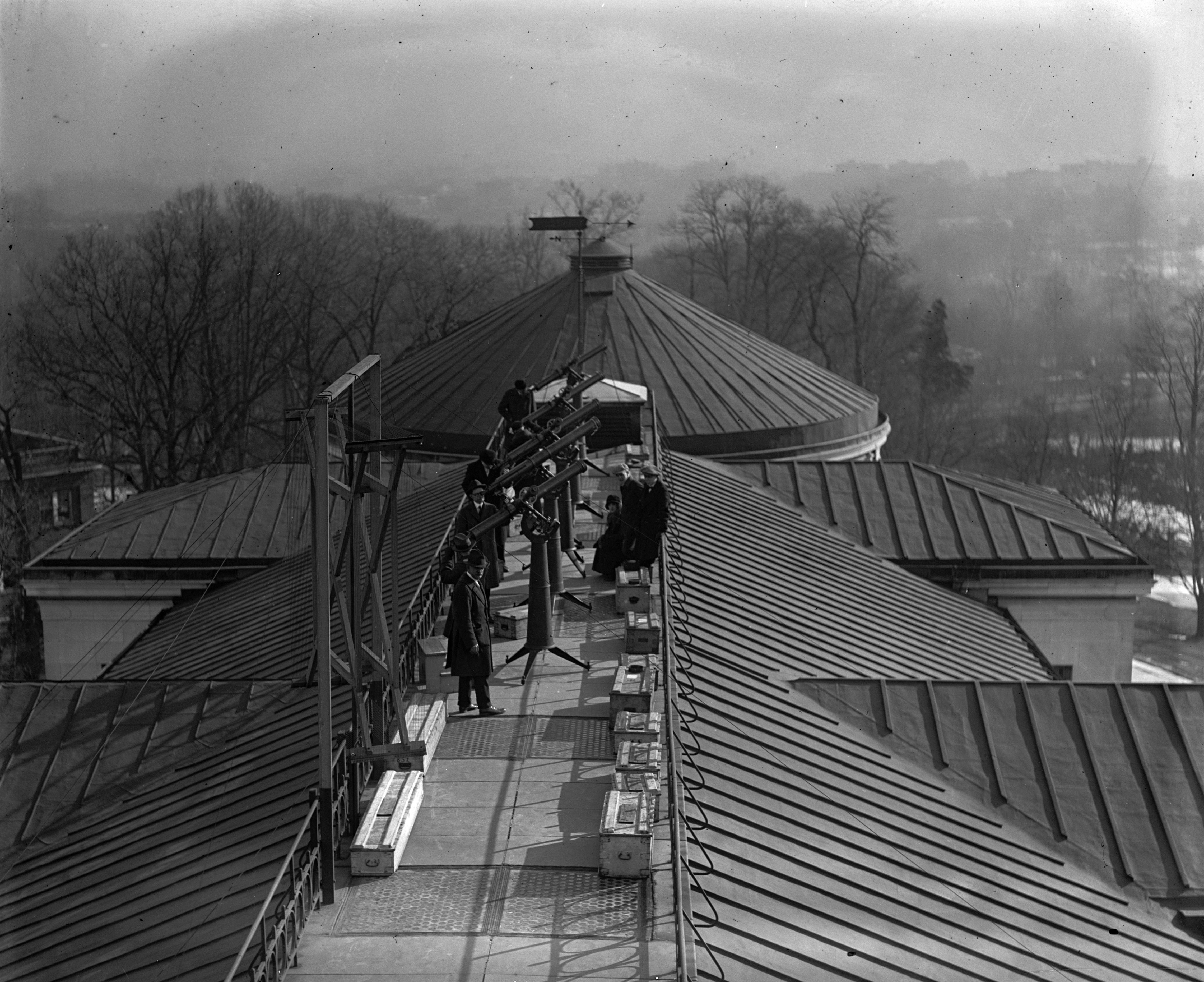 Astronomers at the U.S. Naval Observatory viewing the solar eclipse of January 24, 1925.